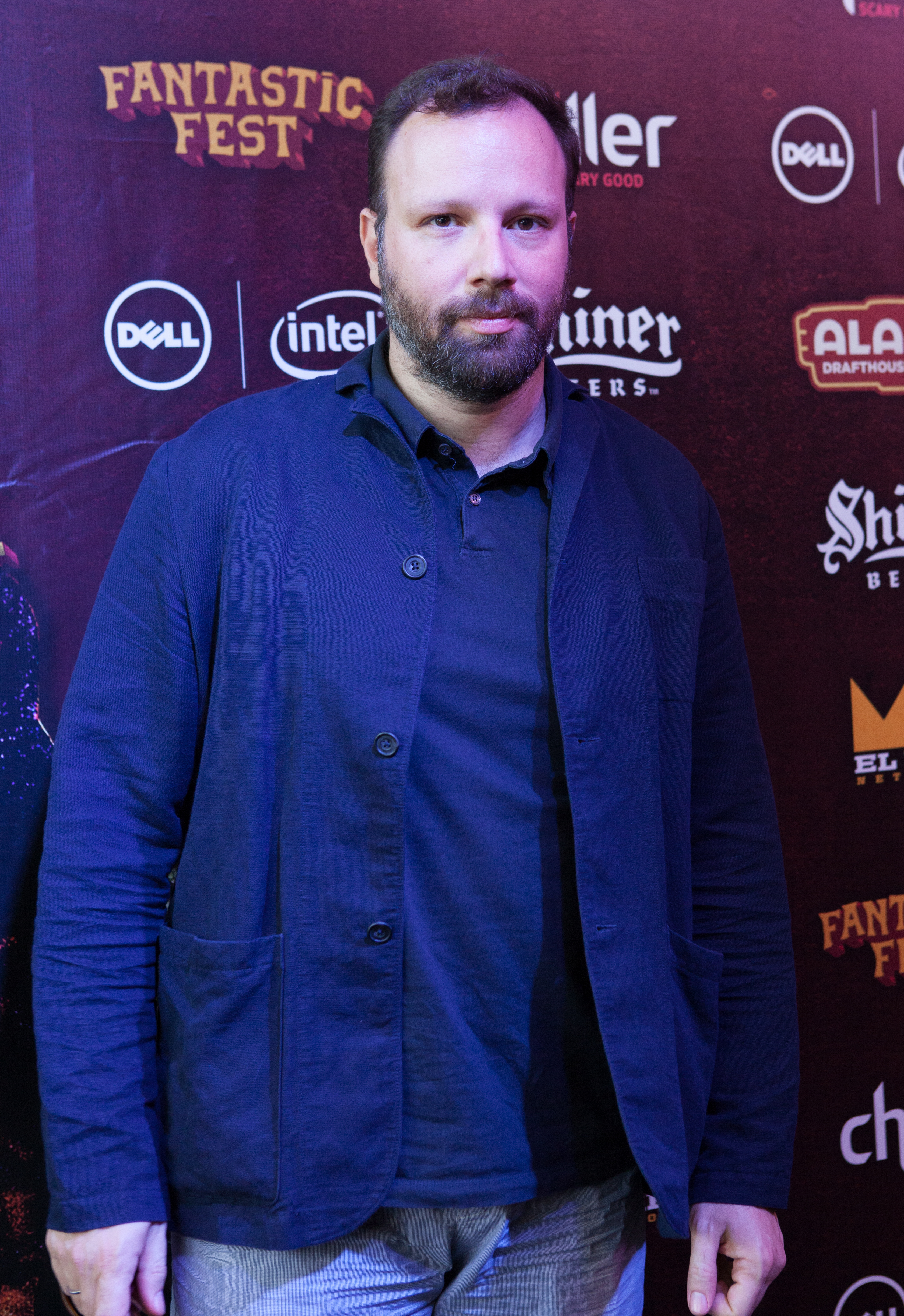 Yorgos Lanthimos promoting The Lobster at Fantastic Fest 2015